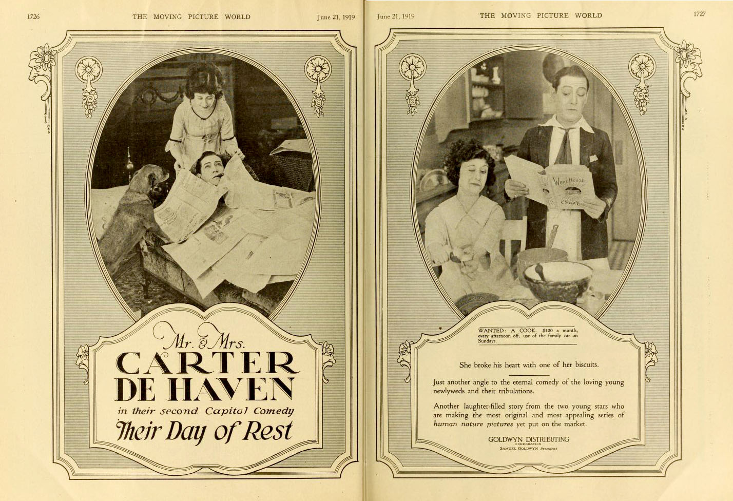 Advertisement, Moving Picture World, June 1919